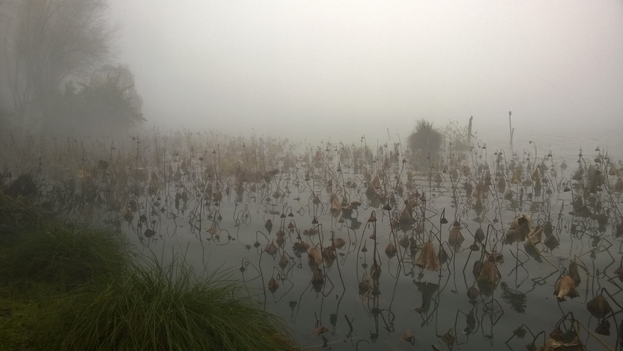 Lotus (Nelumbo nucifera) fruits dried and hanging over the waters of Lago di Mezzo, in Mantova